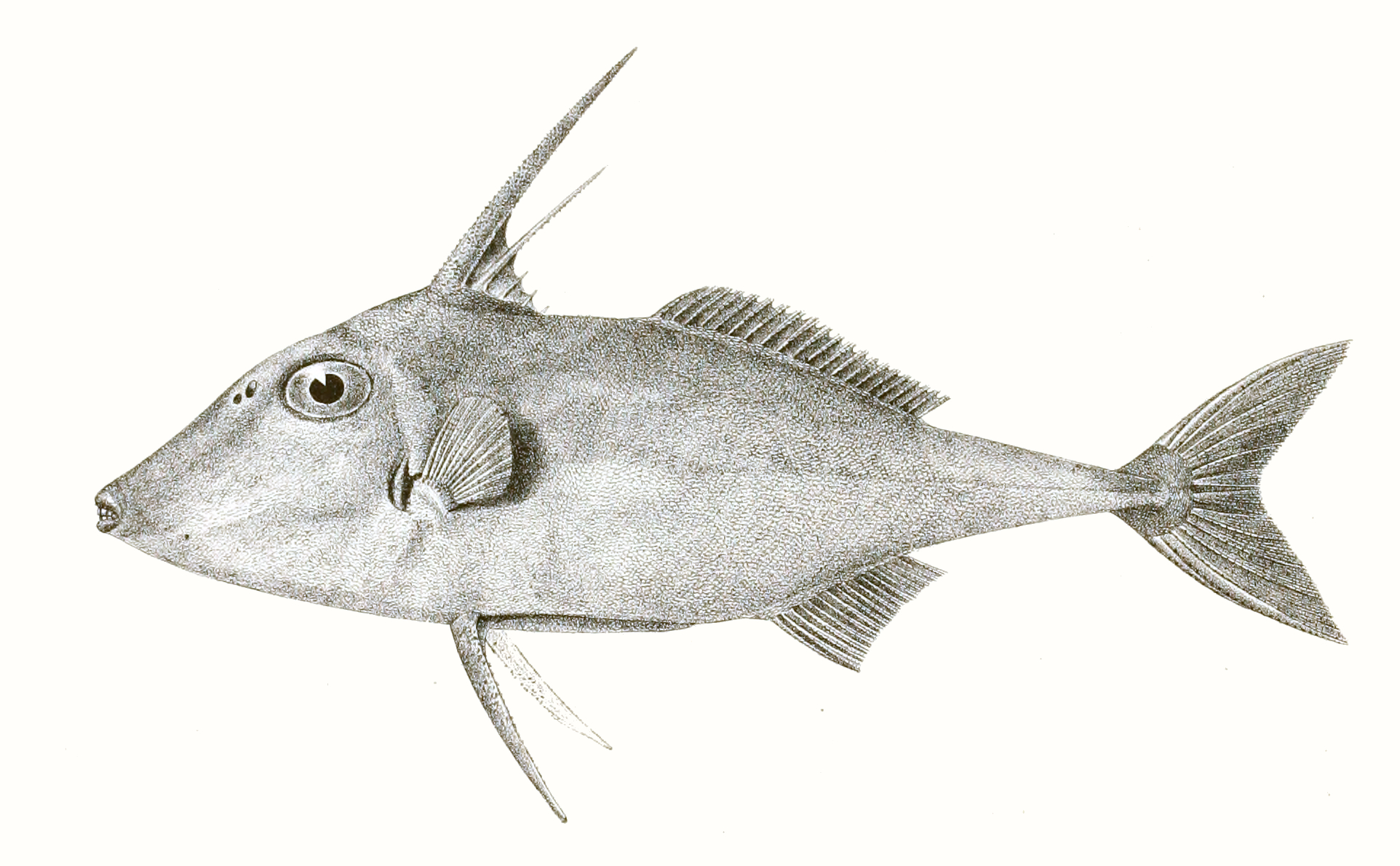 Pseudotriacanthus strigilifer syn. Triacanthus strigiliferThe species names / identity need verification - original names from plate are included here. The original plates showed the fishes facing right and have been flipped here. Triacanthus strigilifer